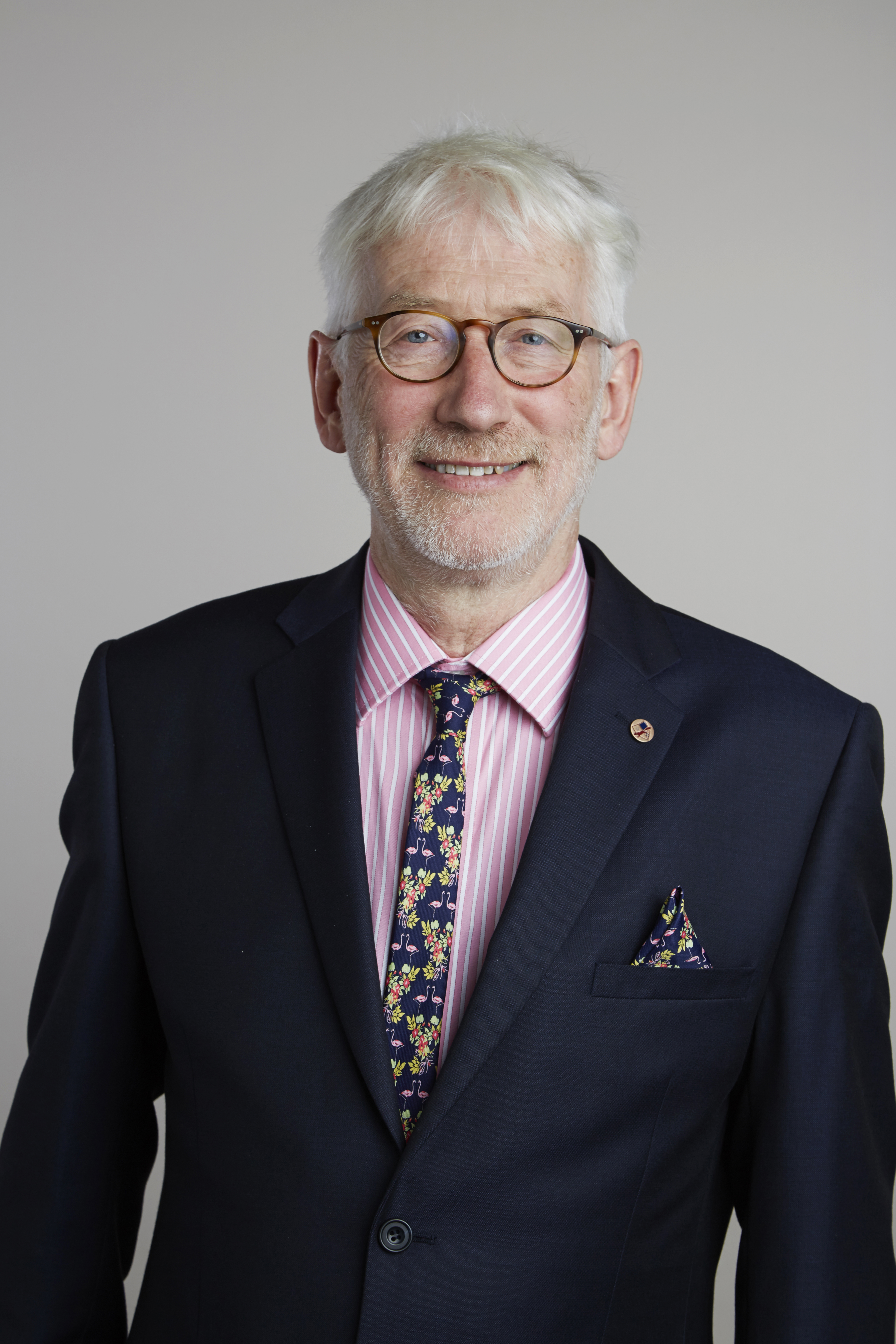 John Rarity pioneered the experimental one-photon and two-photon optics, both to the study of fundamental physical phenomena and also in the development of prototype devices. This requires specially designed sources and detectors, the former including parametric down-conversion and single-deffect emitters. Rarity has made leading advances both to detector design and to such exotic sources and was, with his collaborators, for many years the sole UK representative in experimental quantum optics, his research telling us much about the nature of photons. He spotted early the potential for experimental quantum information and has become a leading figure in this field. Attribution: The Royal Society